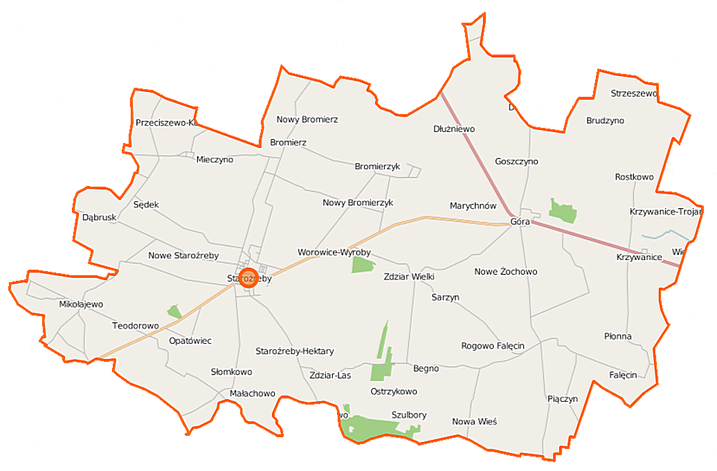 Map of Gmina Staroźreby, Poland This map of Staroźreby (gmina) was created from OpenStreetMap project data, collected by the community. This map may be incomplete, and may contain errors. Don't rely solely on it for navigation. Border coordinates52.699619.8880←↕→20.171552.5867